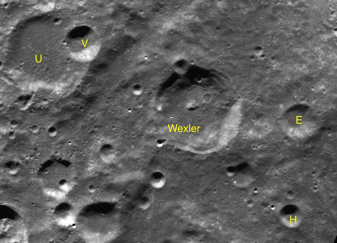 Wexler satellite craters map (part of LAC-139 chart used for presentation)